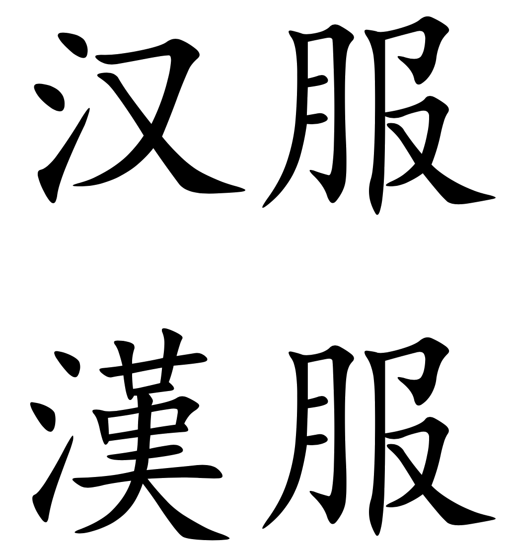 Hanfu in Chinese